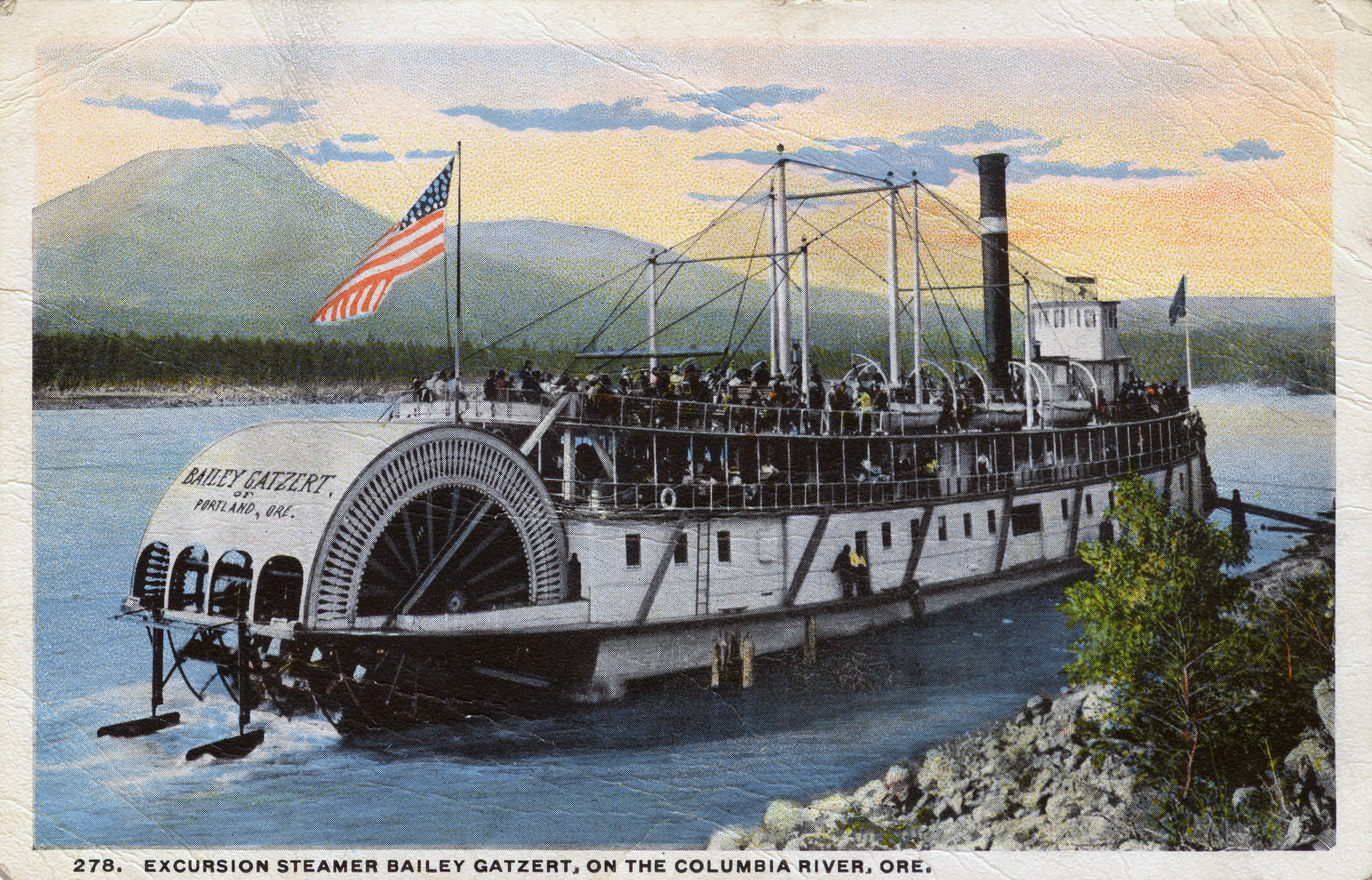 Image Title: Excursion steamer, Bailey Gatzert, on the Columbia River Date: 2008-05-14 Original Collection: Gerald W. Williams Collection Item Number: WilliamsG_CR_Bailey Gatzert Original Collection: Gerald W. Williams Collection